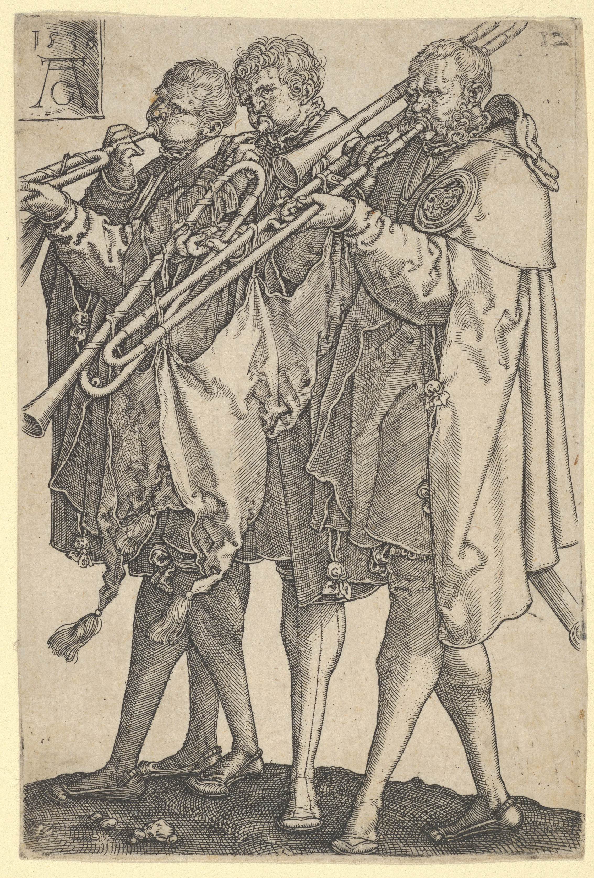 Print; Prints